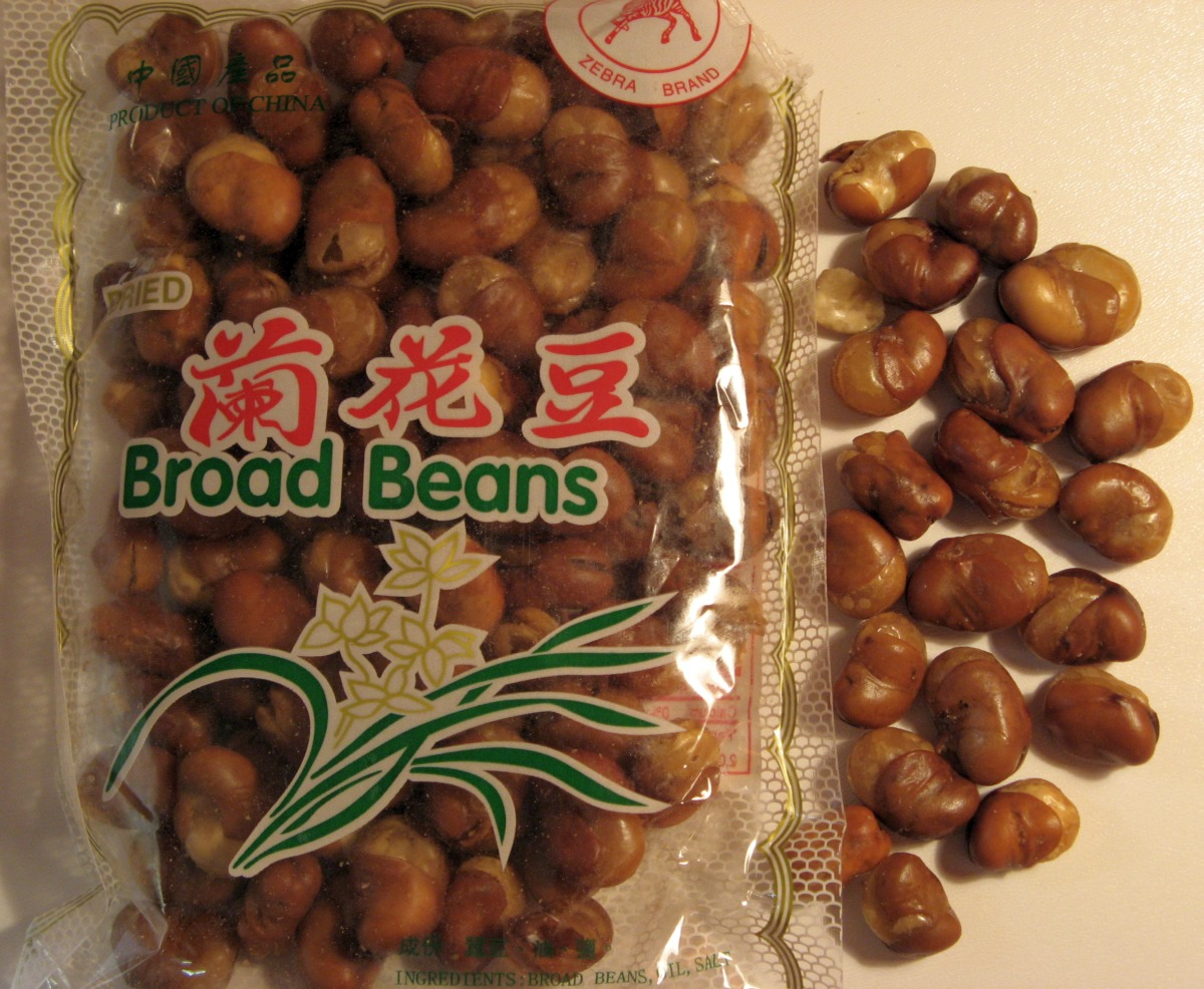 Fried broad bean (probably Vicia faba) as a snack, seasoned with garlic, salt and chili. Produced in China. Bought in an Asian supermarket in Germany.